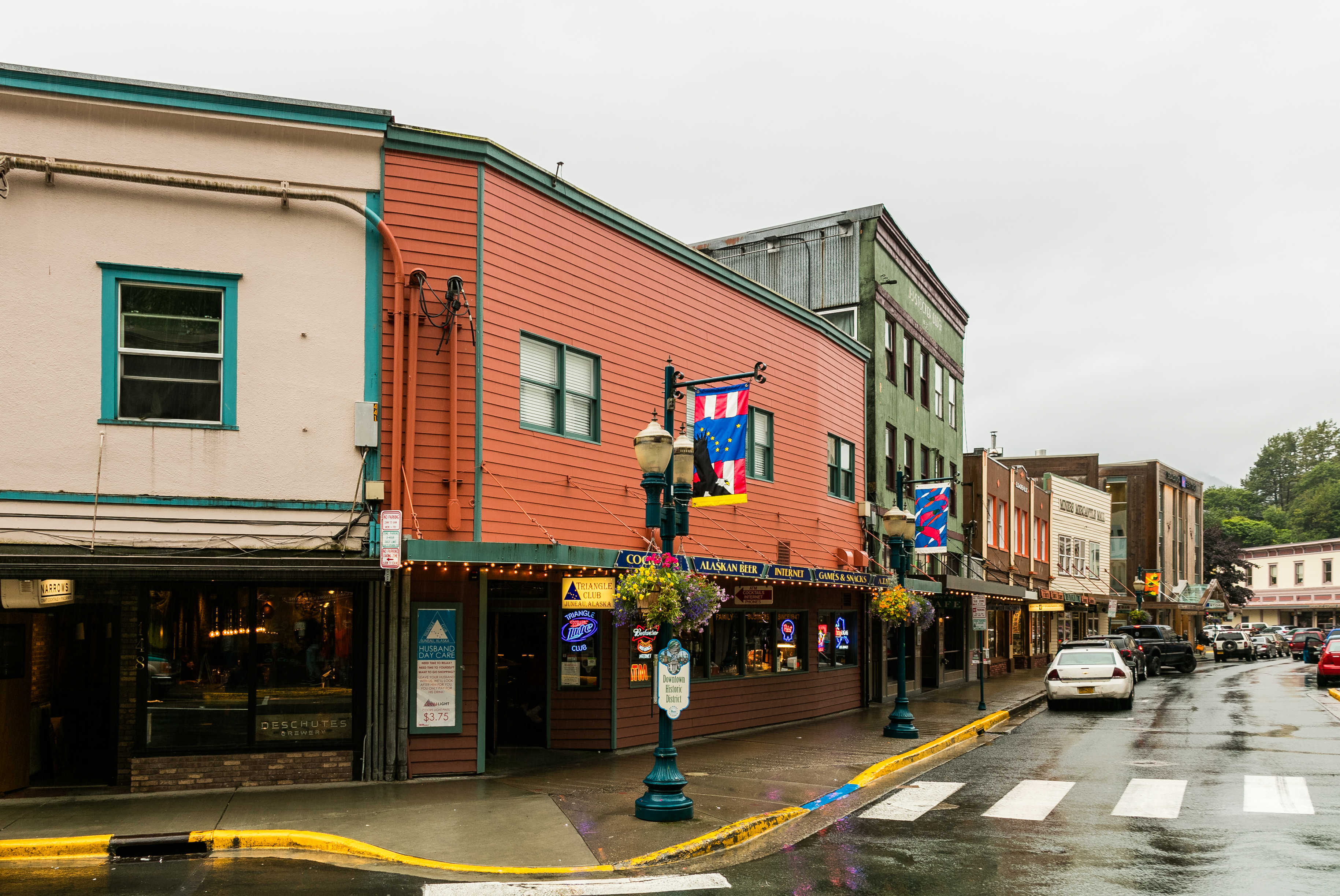 Front St., Juneau, Alaska, United States